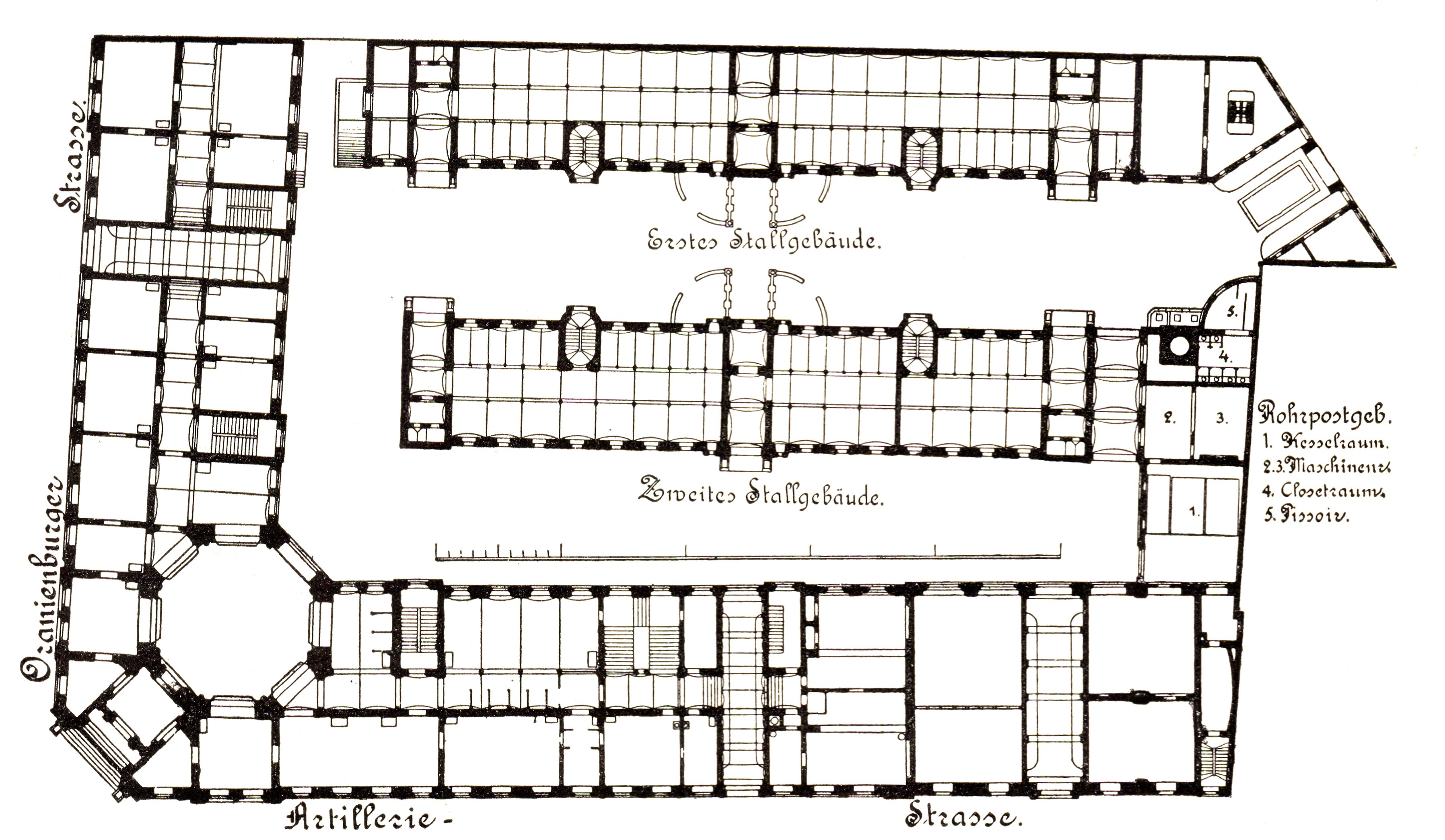 Berlin - Postfuhramt, plan